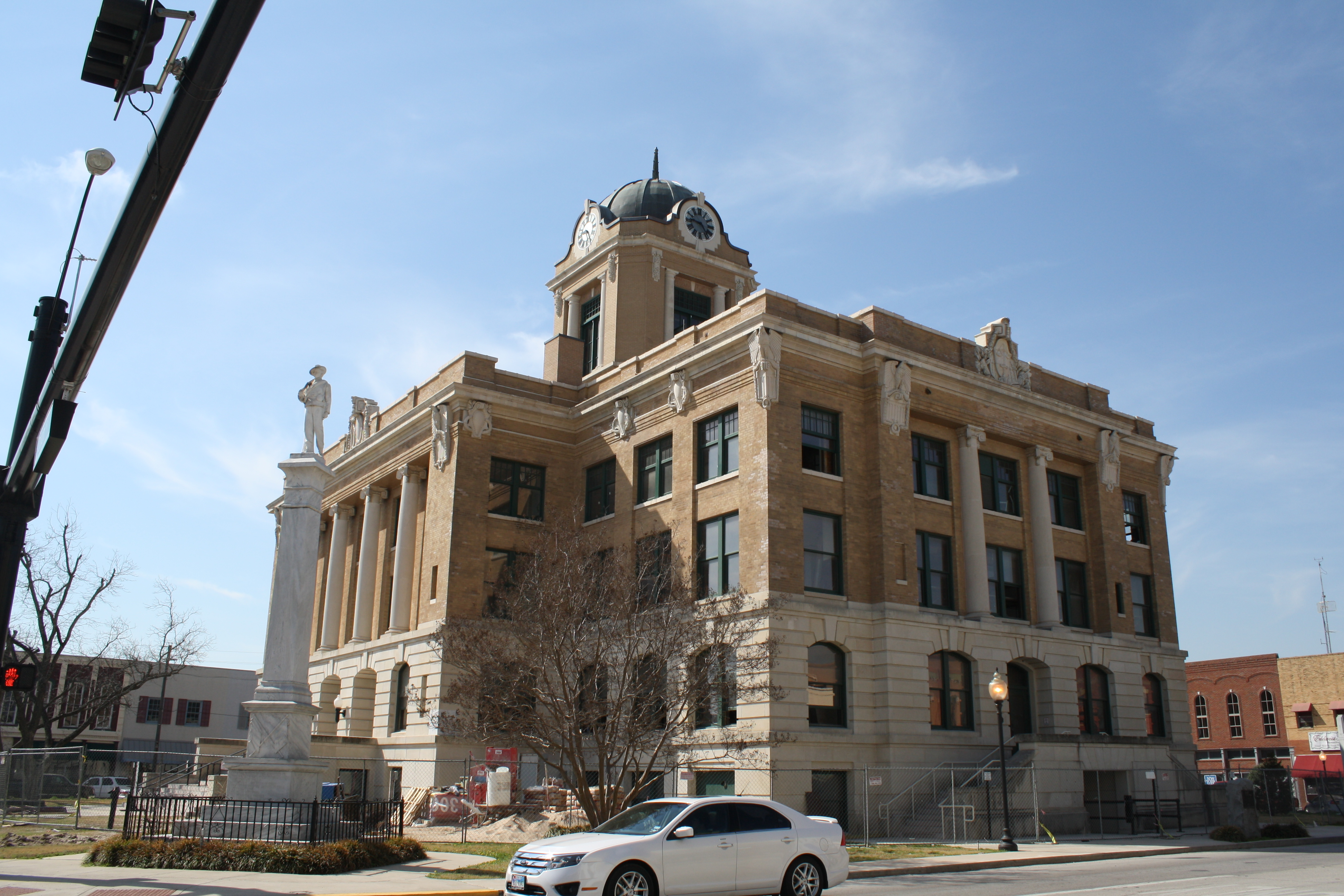 Courthouse, Cooke County, Gainesville, TX